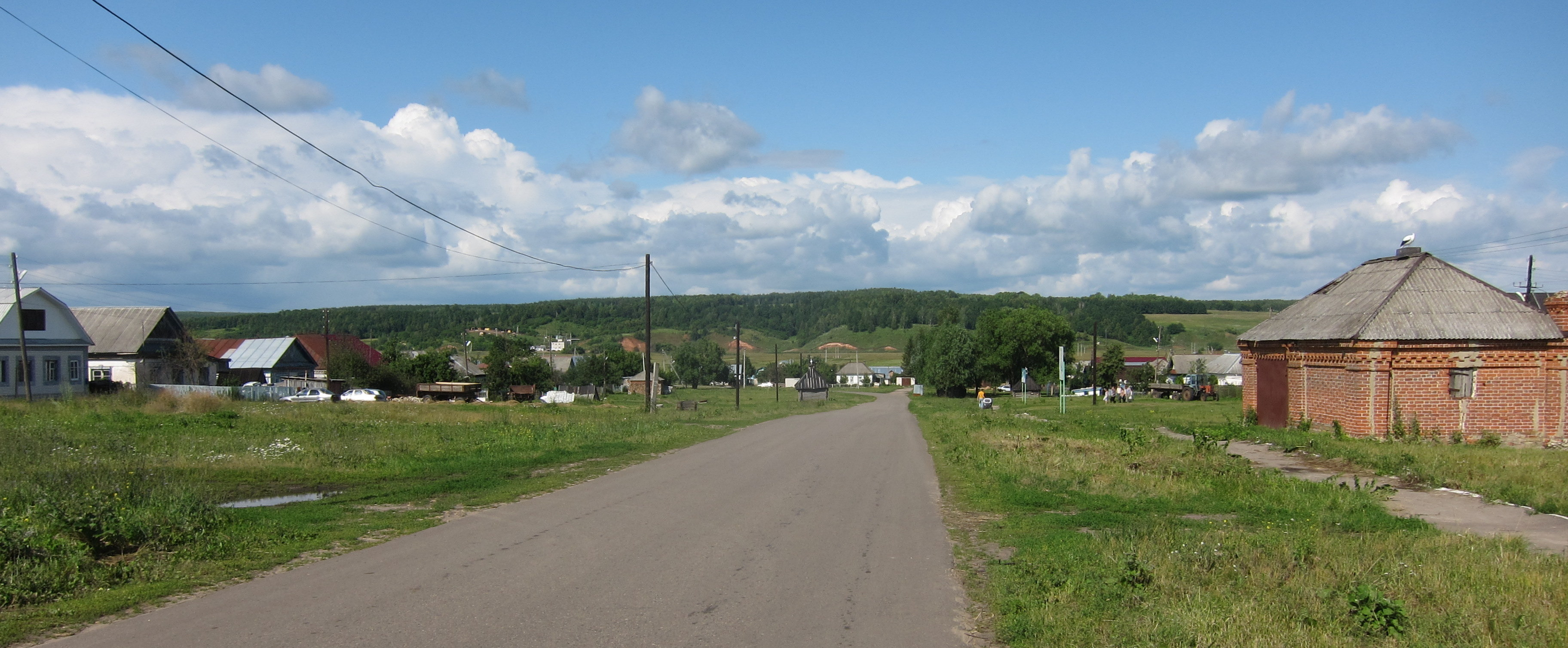 Peshelan' Arzamas district